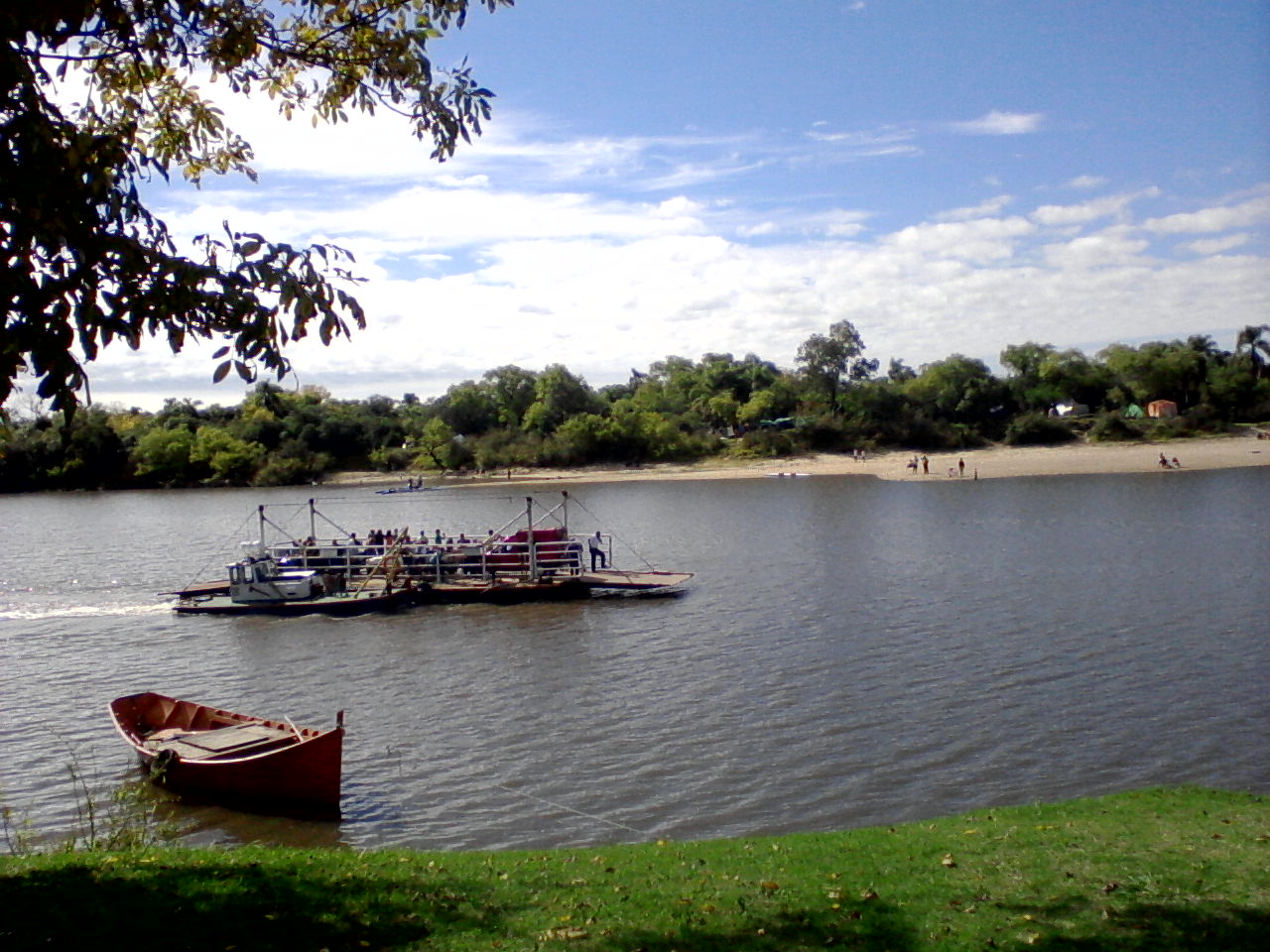 Río Cebollatí and its barge ferry at Charqueada (General Enrique Martínez), Treinta y Tres, Uruguay.